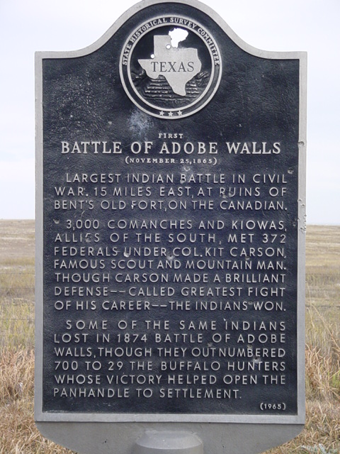 This historical marker, erected by the State Historical Survey Committee in 1964, preserves the First Battle of Adobe Walls, November 25,1865.